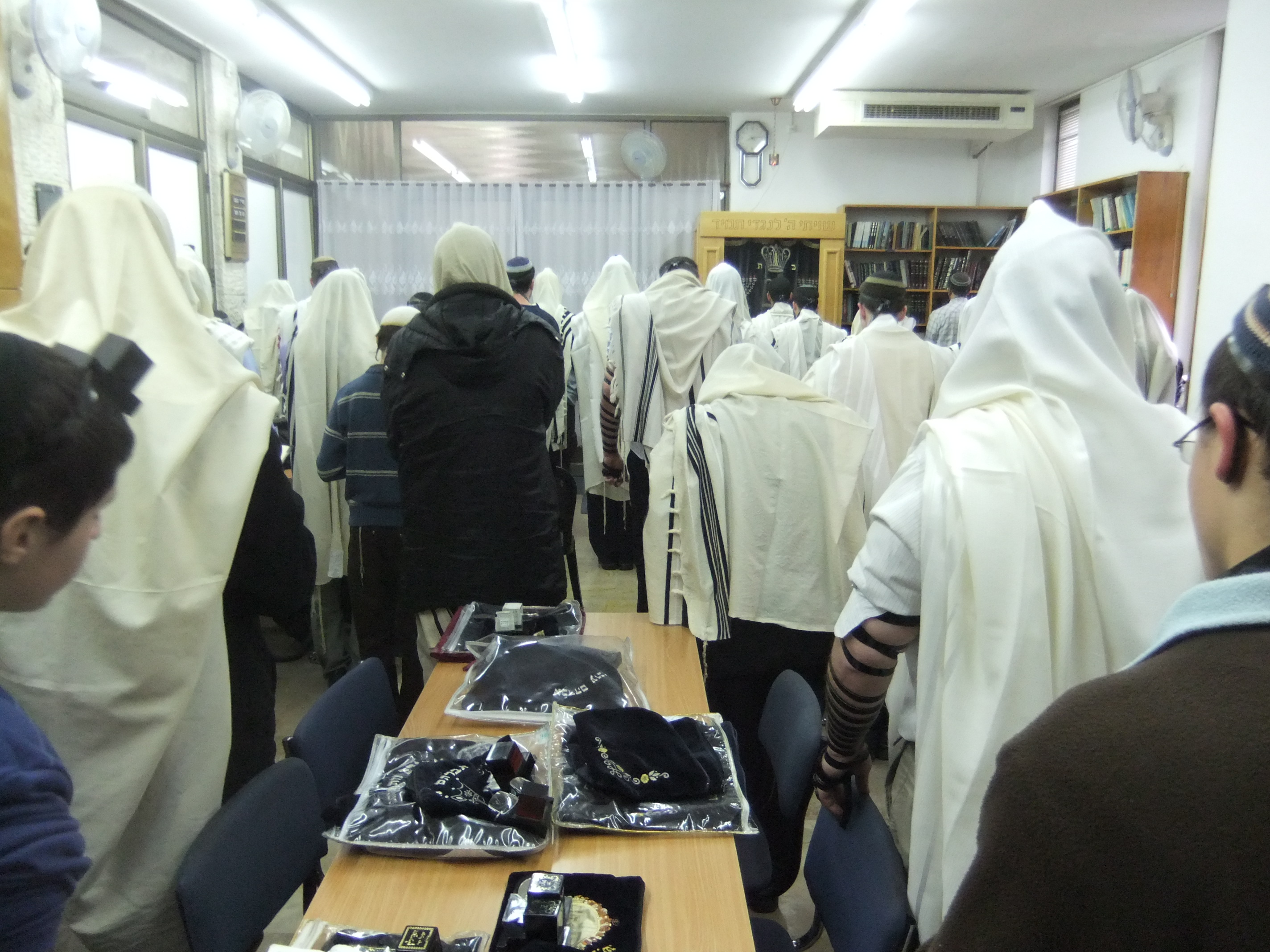 Shacharit in Beit El Synagauge, Avraham Ohavi side room